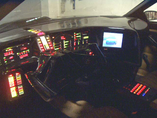 Photo of a my friend replica taken by myself. Arroww